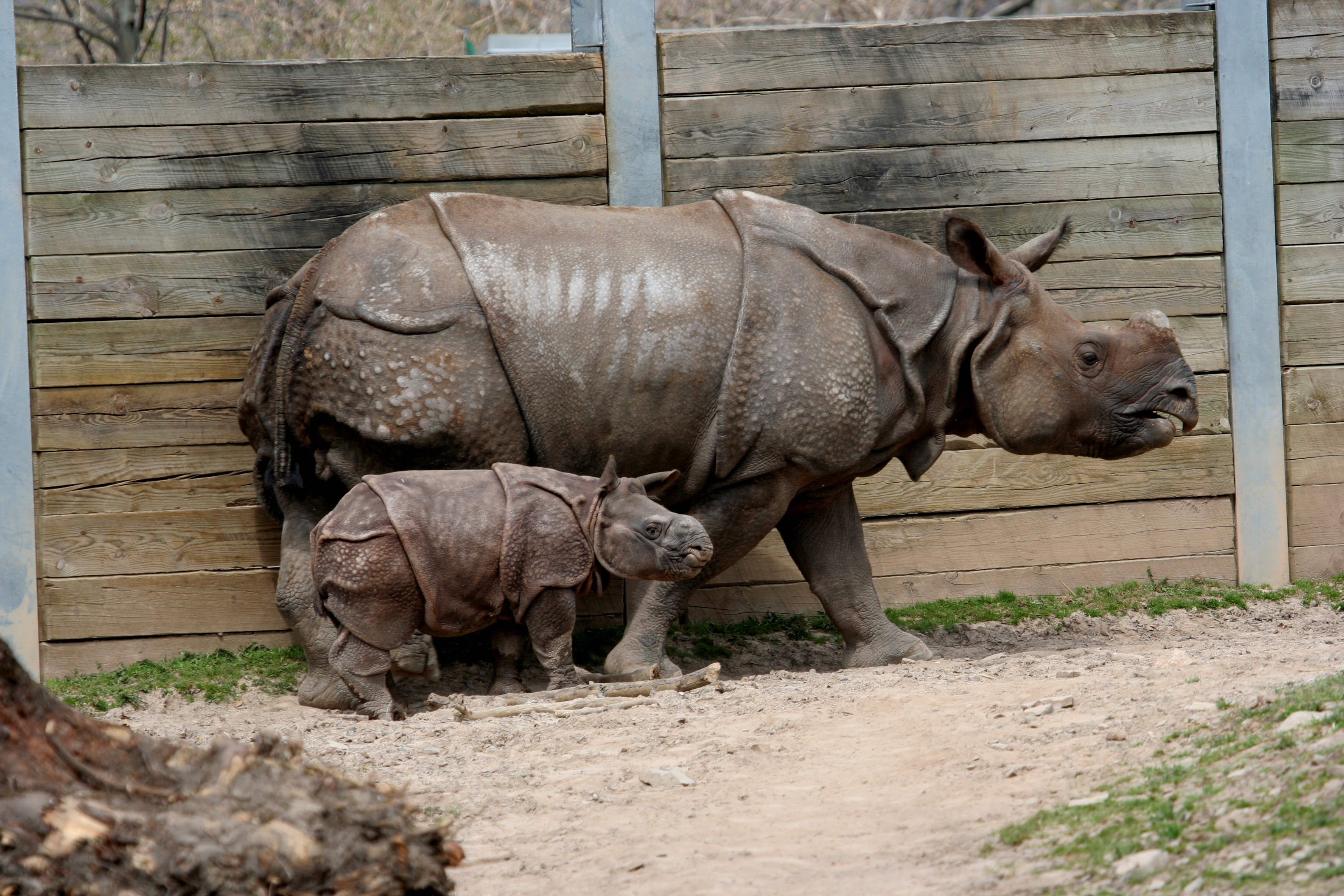 Indian Rhinoceros or the Great One-horned Rhinoceros or the Asian One-horned Rhinoceros at Buffalo Zoo.